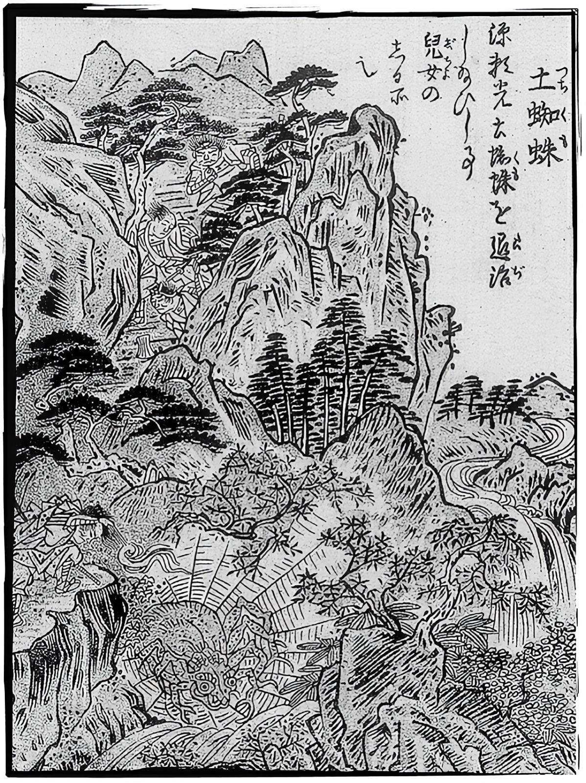 Tsuchigumo (土蜘蛛, a giant spider that was defeated by Minamoto no Raikō) from the Konjaku Gazu Zoku Hyakki (今昔画図続百鬼)